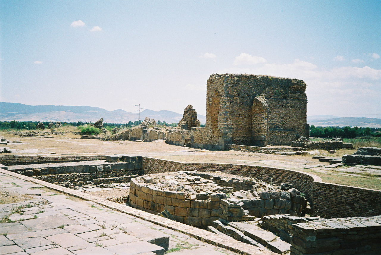 The forum at Chimtou, Tunisia. Photo taken in early May 2005 by myself, previously uploaded by myself to Welsh Wikipedia.